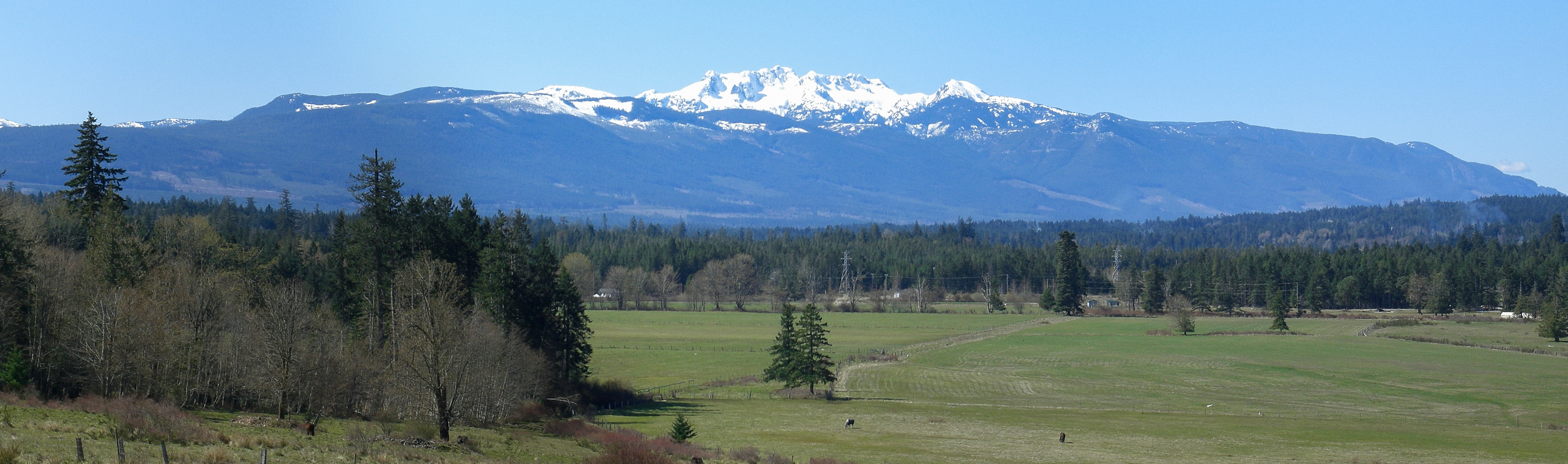 4 image panorama of Mount Arrowsmith taken from Highway 19 between Parksville and Nanoose Bay looking west.